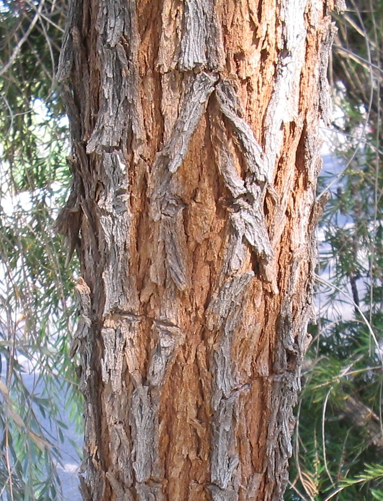 Acacia pendula bark Botanical Gardens at Glendale Public Library (West Edge of Phoenix, Arizona, USA)